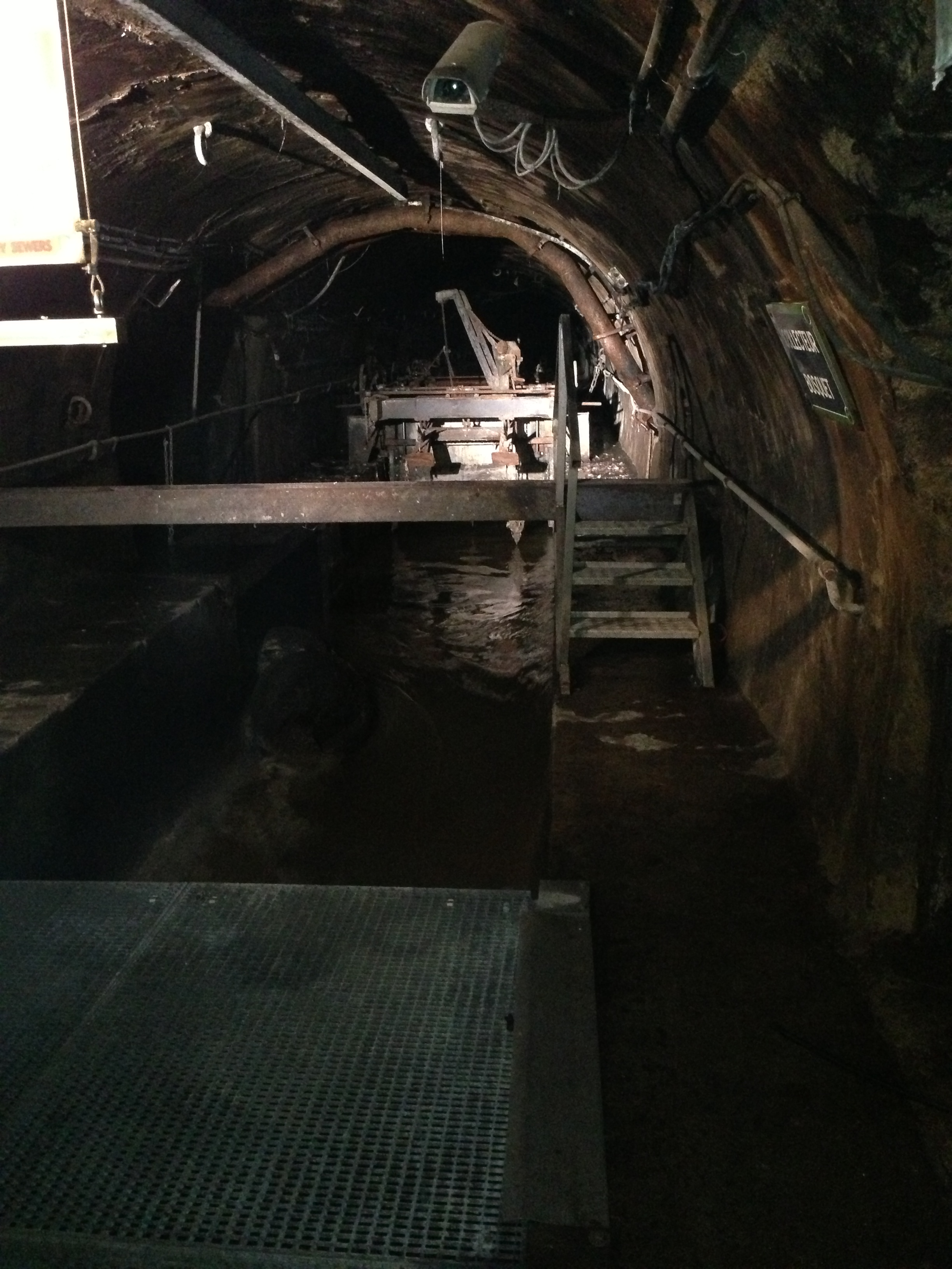 Underground in the sewers of Paris, France.